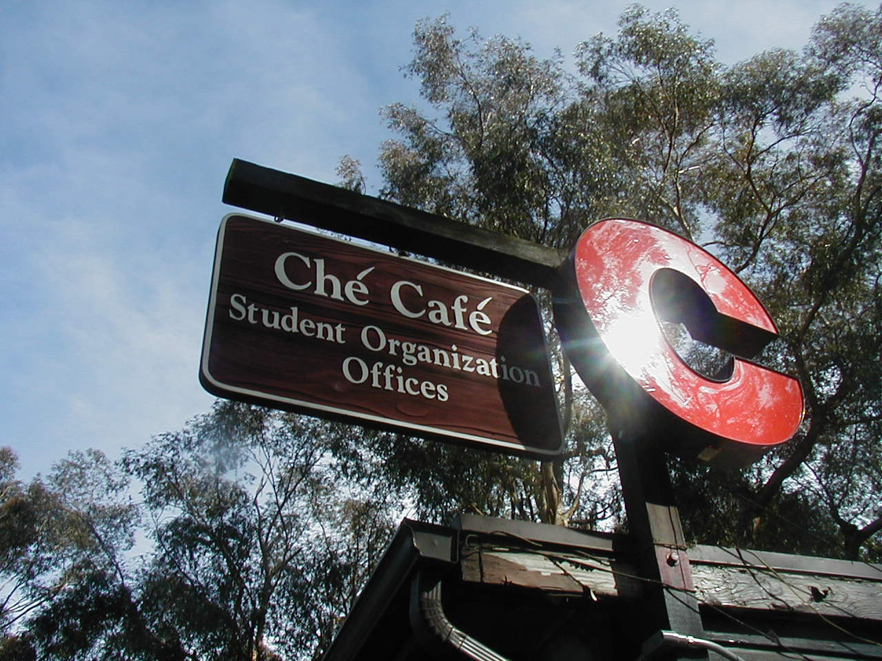 Sign for the Che Cafe, a co-operative DIY venue and vegetarian restaurant in La Jolla, CA near San Diego